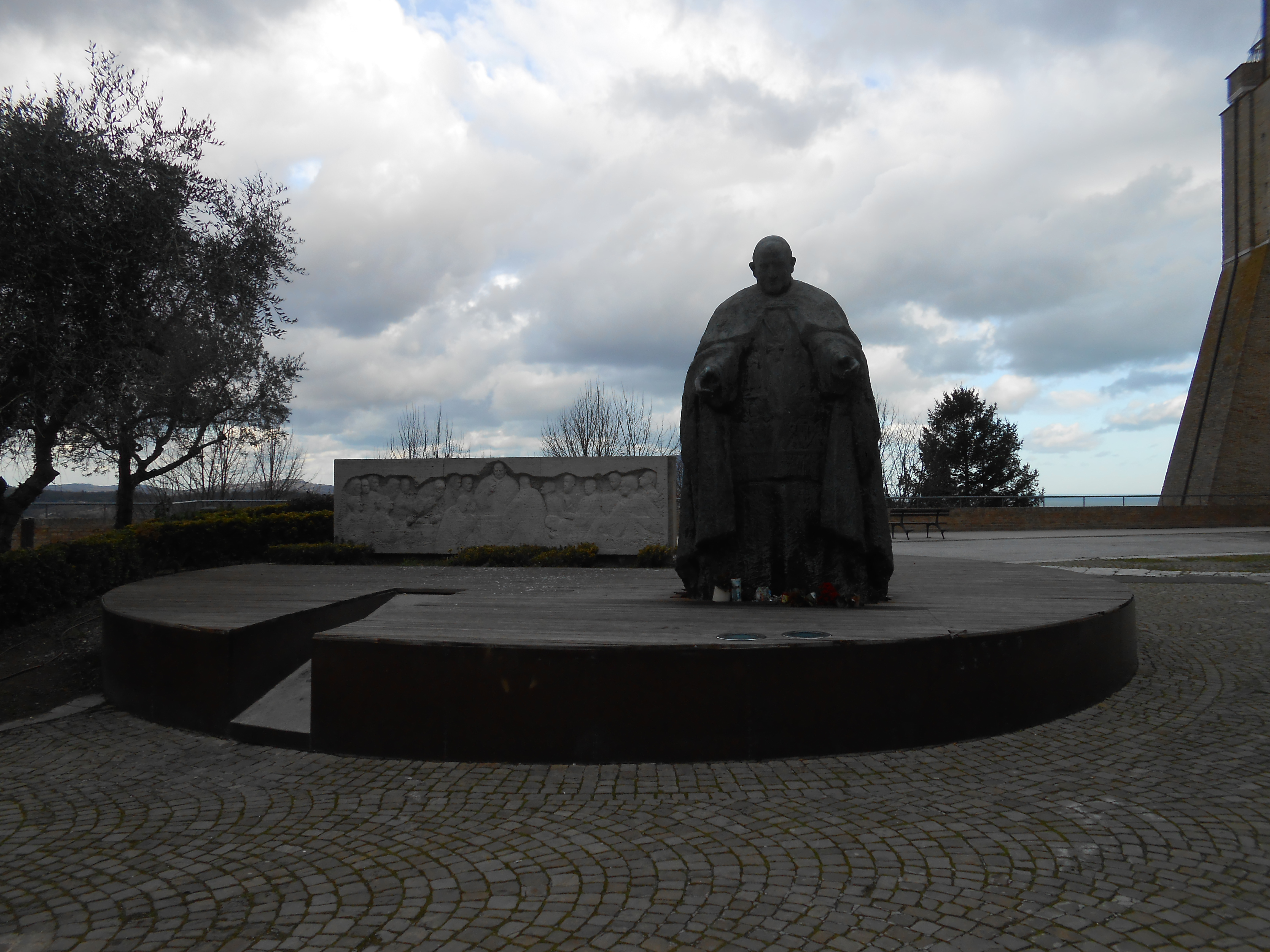 Statue of pope Giovanni XXIII, Alessandro Monteleone, Loreto